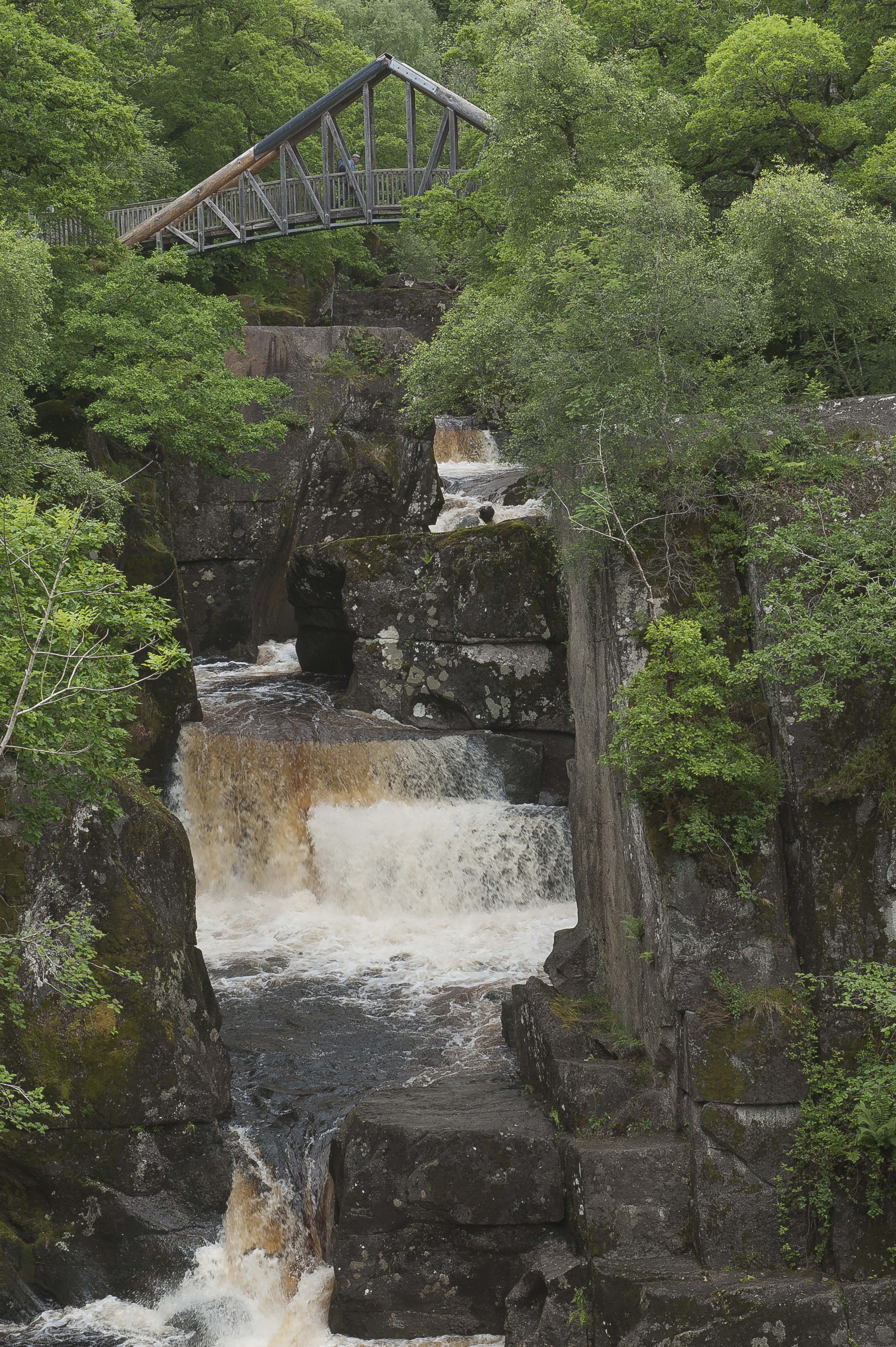 Bracklinn Falls, Callander, Scotland